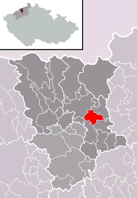 Location of Bystřany municipality within Teplice District and administrative area of Teplice as a Municipality with Extended Competence.